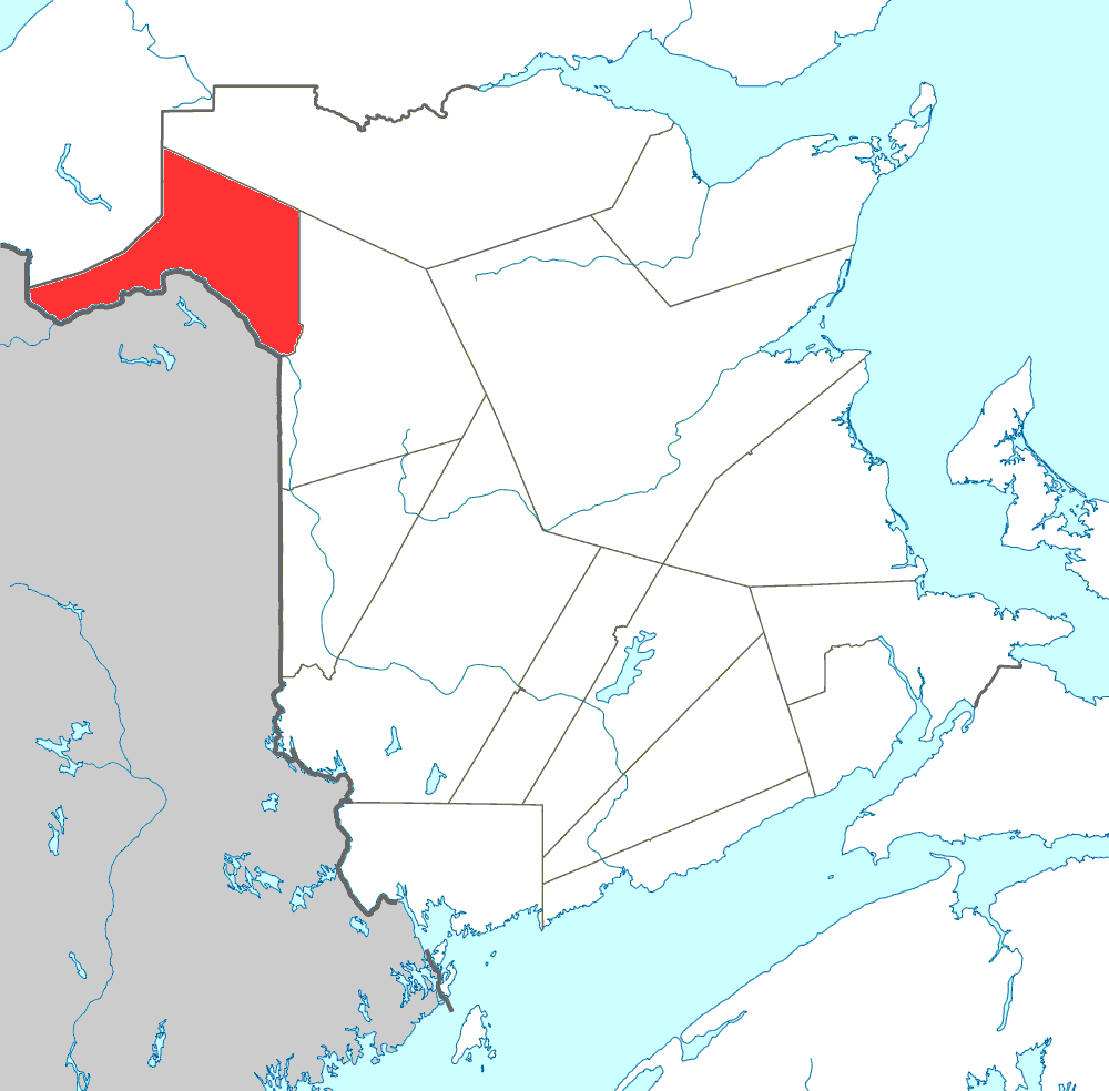 Map of New Brunswick highlighting Madawaska County